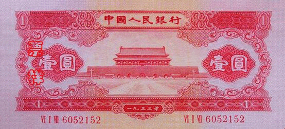 Front of second series 1 yuan renminbi (version 1)